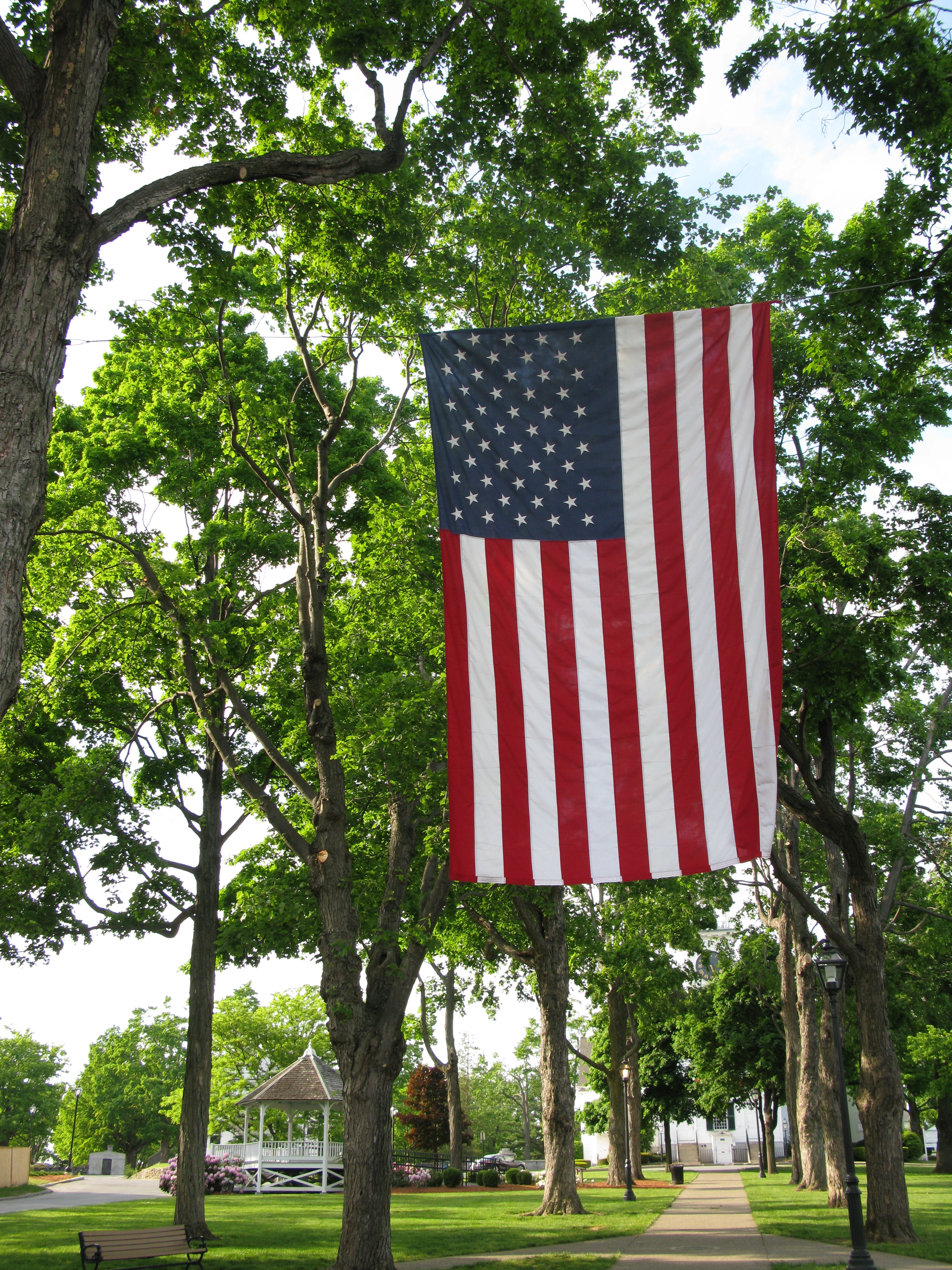 Shrewsbury Historic District